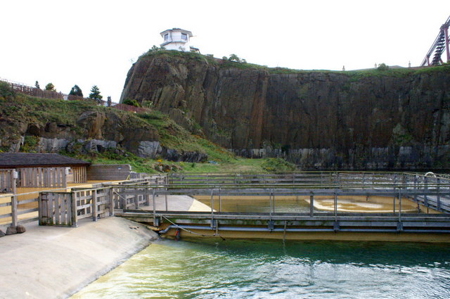 Seal pens at Deep Sea World The pens are in the quarry along side which the centre is built, the whole complex being almost underneath the Forth Rail Bridge.